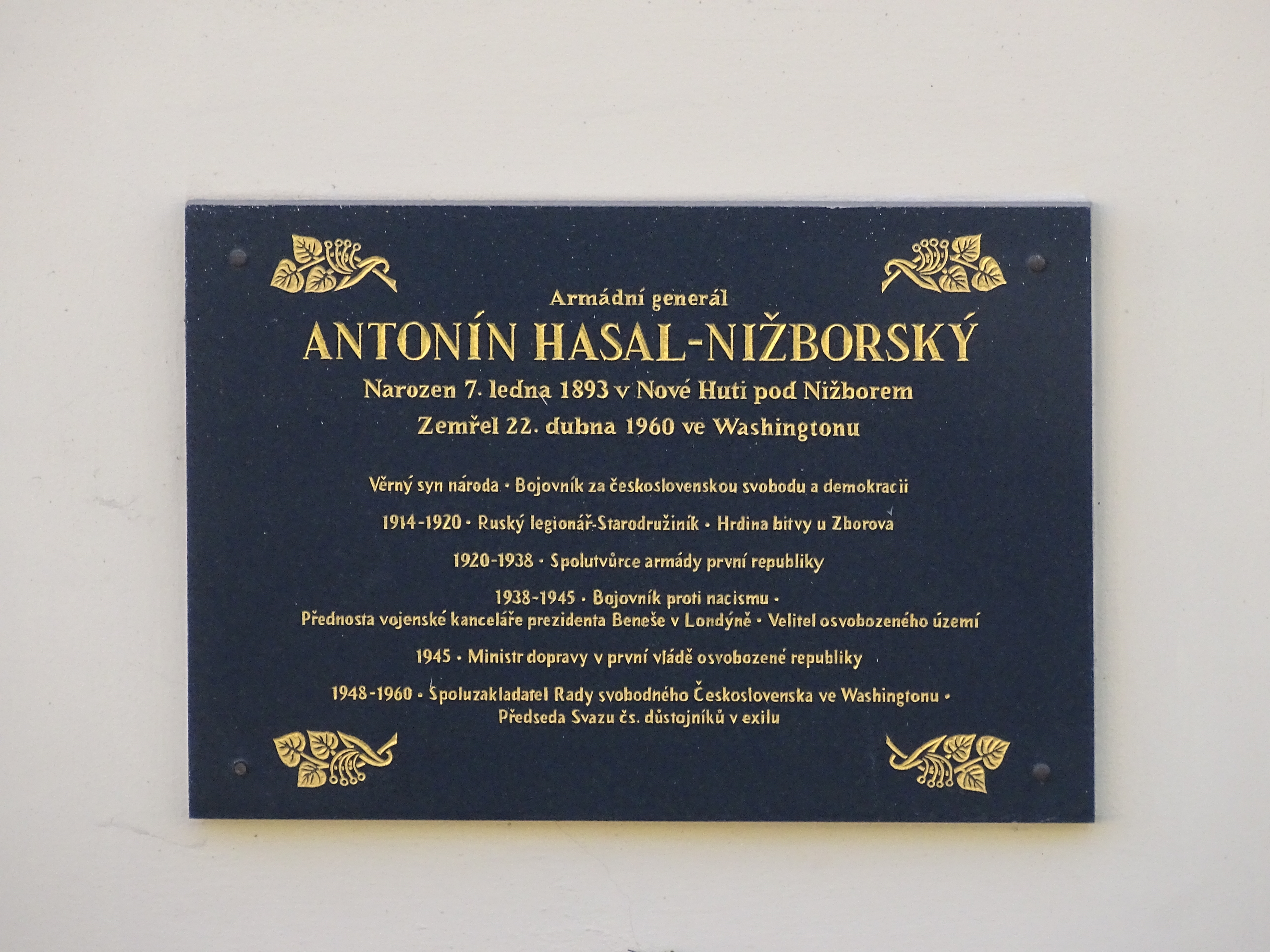 Nižbor, Beroun District, Central Bohemian Region, Czechia. Školní 25, a plaque on the school building.